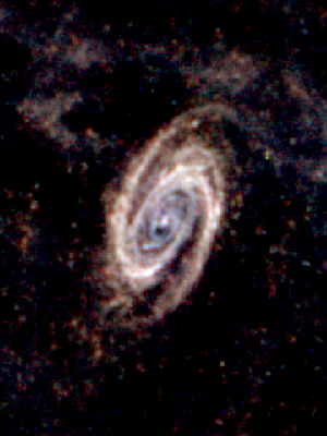 Messier 81 observed in the far infrared by Herschel. Herschel is an ESA space observatory with science instruments provided by European-led Principal Investigator consortia and with important participation from NASA. The observations performed with the ESA Herschel Space Observatory (Pilbratt et al. 2010), in particular employing Herschel's large telescope and powerful science instrument SPIRE (Griffin et al. 2010). Pilbratt, G.L., Riedinger, J.R., Passvogel, T. et al. 2010, A&A, 518, L1 Griffin, M.J., Abergel, A., Abreu, A. et al. 2010, A&A, 518, L3